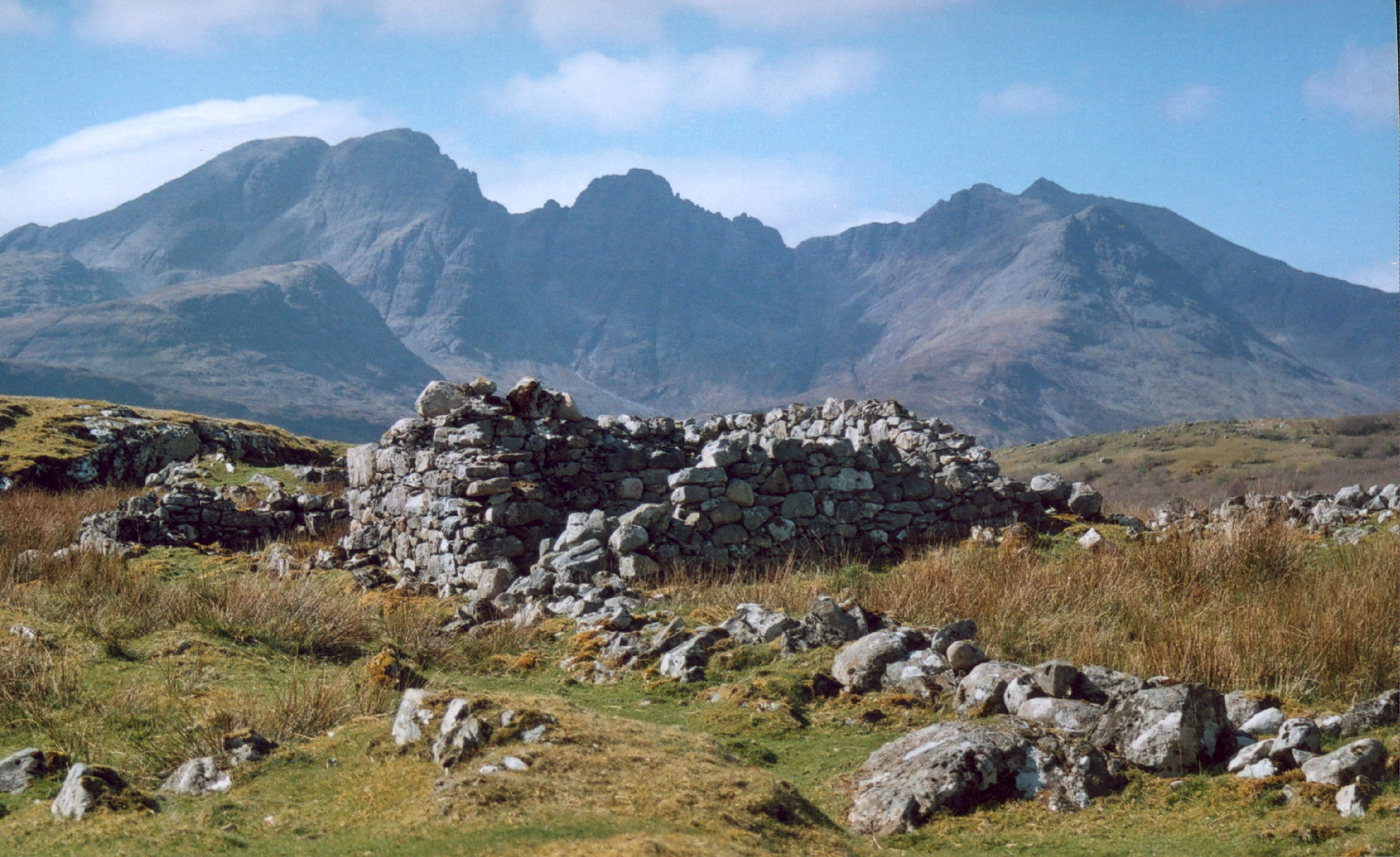 Ruined 'shepherd's byre' on Kilbride common grazing. Blaven, Clach Glas and Garven in background.